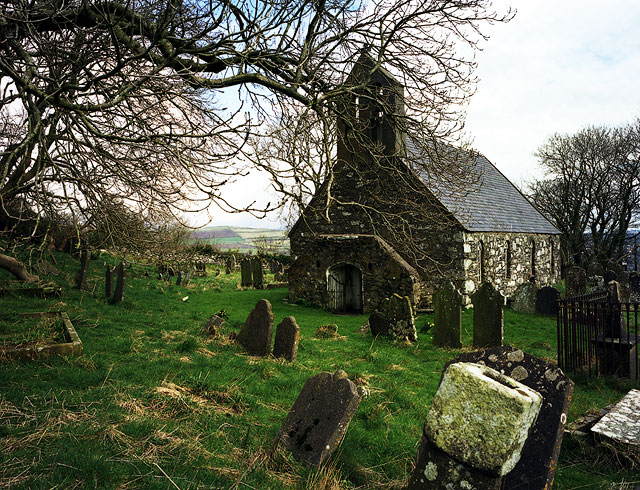 Marown Old Church. The ancient parish church of St Runius, Marown. The original building was from approximately 1200 AD and was enlarged in 1754 AD. Three bishops are possibly buried here; Lonnan, Connaghan, and Runius. The old church was replaced around 1860, when a new church was opened. Old St Runius continued to be used occasionally for special services. The building was restored by volunteer labour and reopened on August 9th 1959. Services are now held during the summer and for all major festivals.